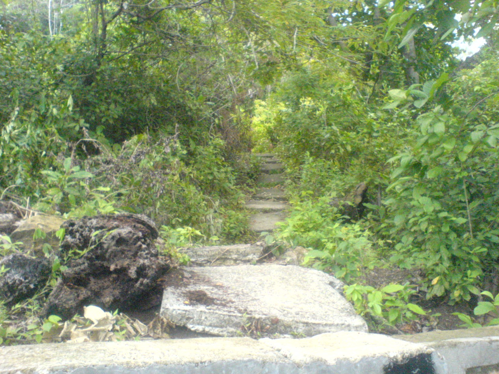 Road to Hamzah Fansuri tomb